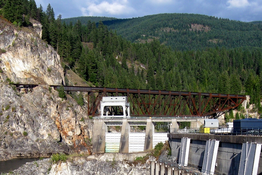 Box Canyon Bridge (Idaho and Washington Northern Railroad), Pend Oreille County